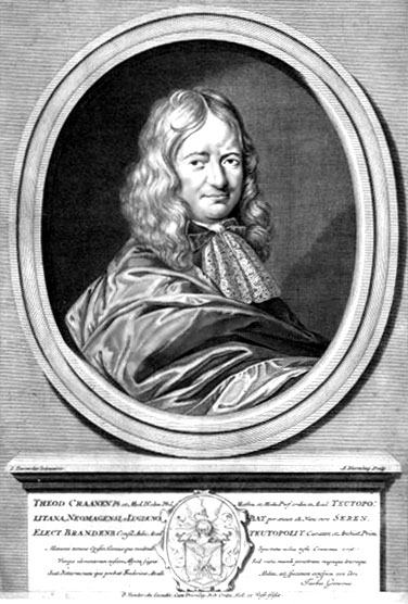 Theodor Craanen (1633-1688) German mathematician and physician